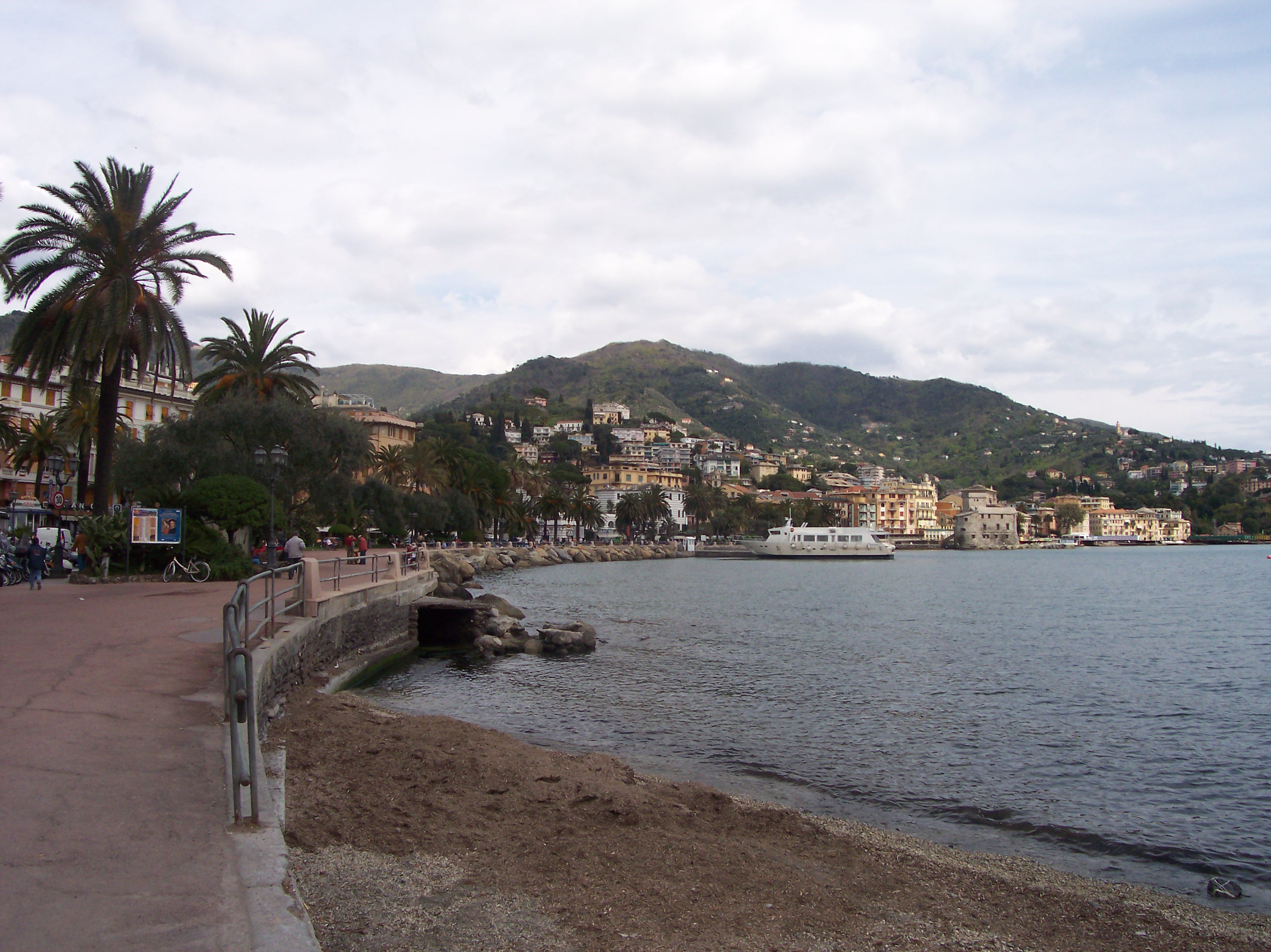 Sea Front of Rapallo